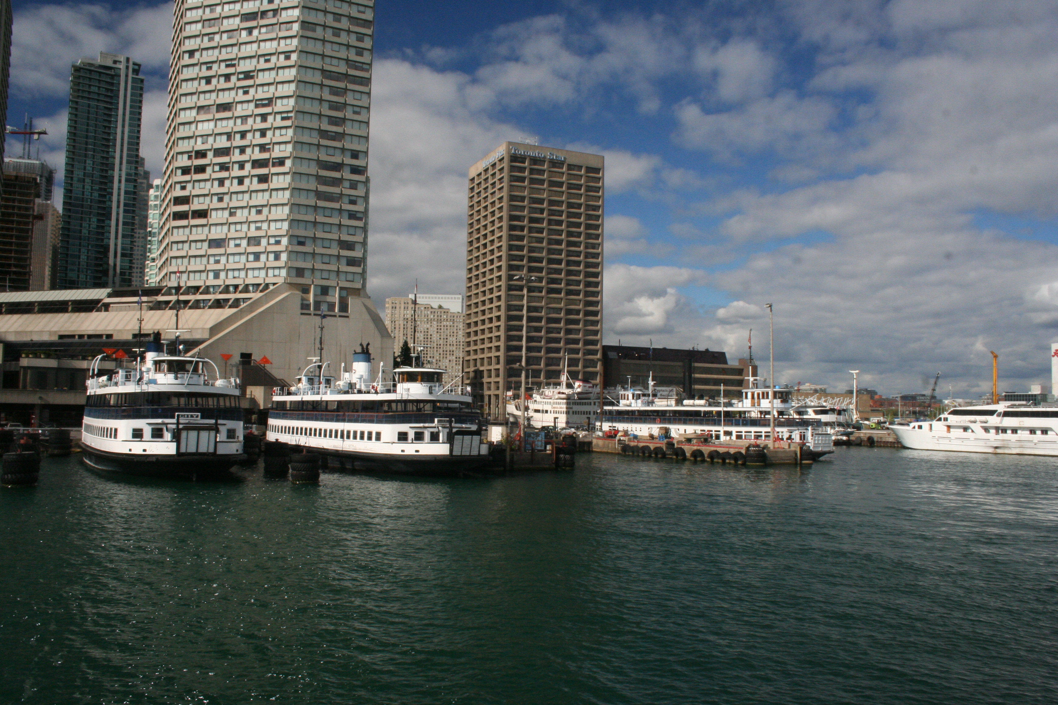 Toronto Island mainland ferry terminal The Thomas Rennie, Sam McBride, Jadran, Trillium at the ferry terminal in Toronto.jpg From left to right: "Thomas Rennie", "Sam McBride", Jadran, Trillium